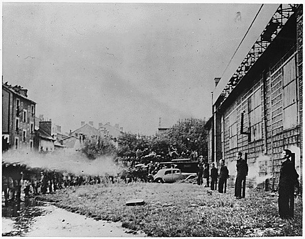 WWII: Europe: Grenoble, "FIRE! - Members of French Forces of the Interior carry out the death sentence of six young frenchmen convicted of collaborating with the Germans"